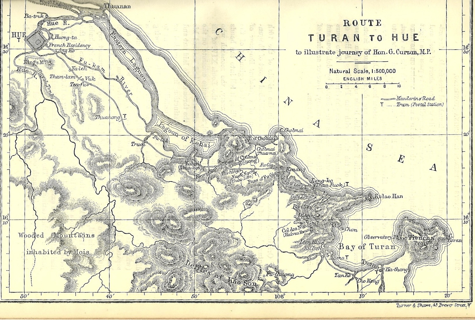 Map showing the Mandarin Road between Hue and Cua Han (Turan, modern day Da Nang)